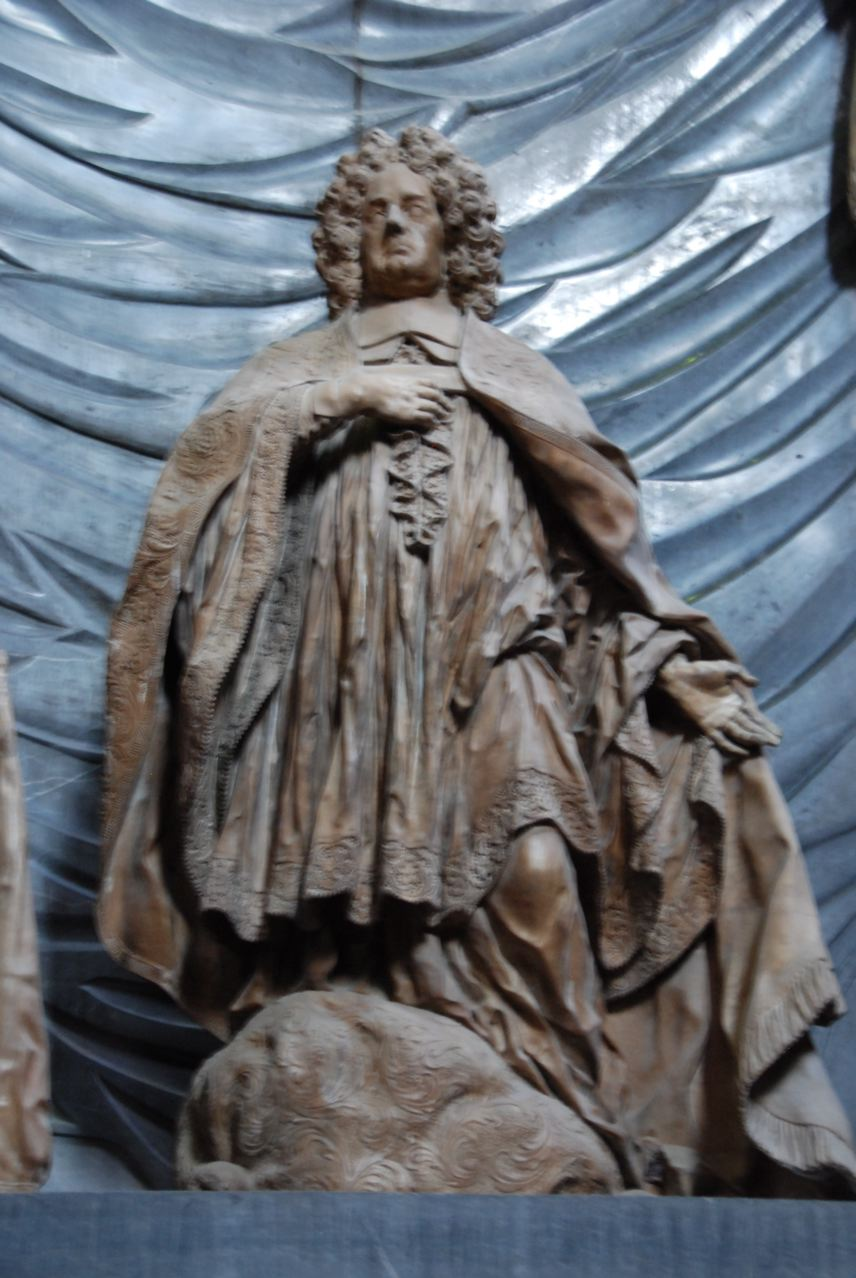 close-up of the principal figure of the sculpture group on the monument in the Mainz Cathedral dedicated to Heinrich Ferdinand von der Leyen zu Nickenich